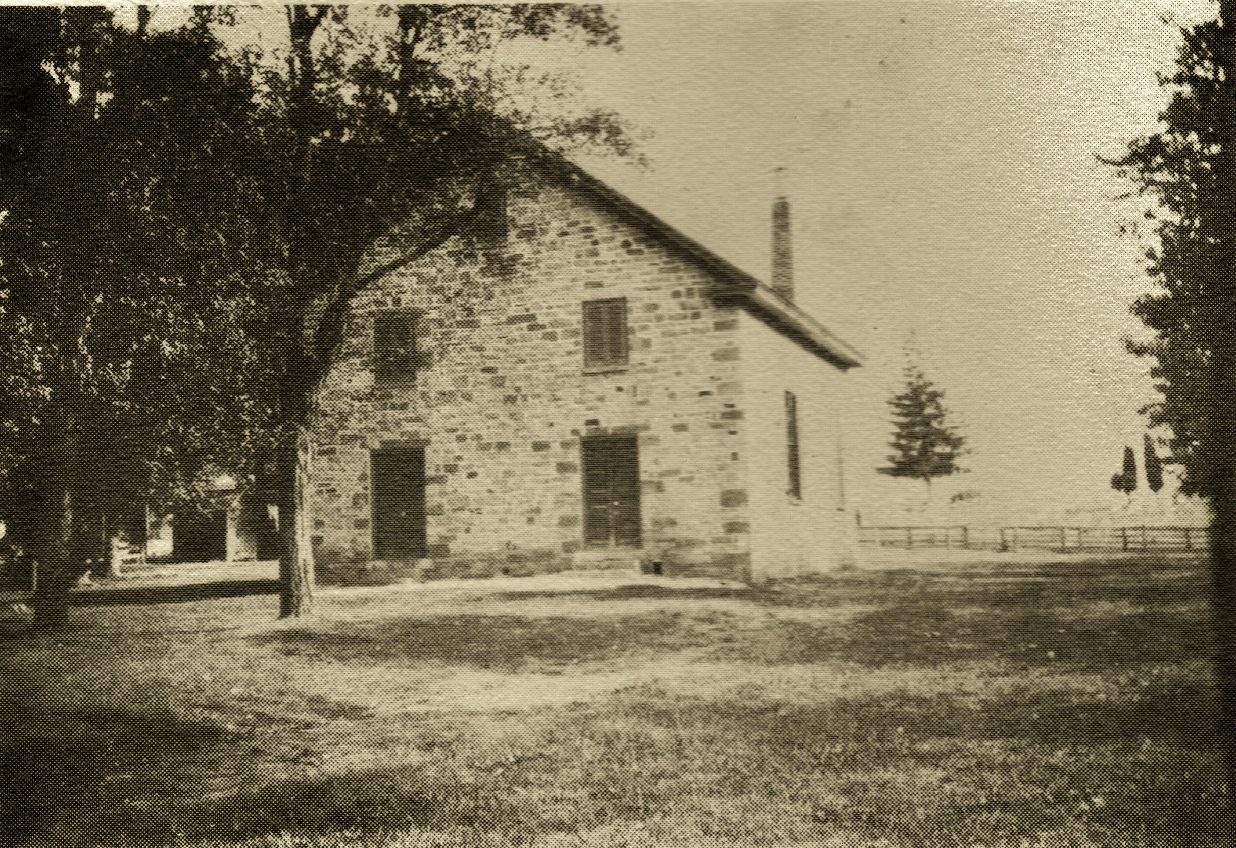 Rock Run United Methodist Church, Level, Harford County, Maryland (near Darlington, Maryland).